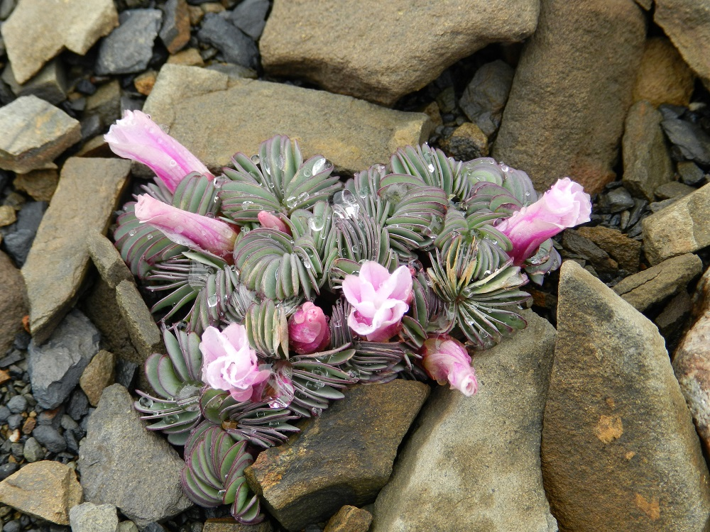 Oxalis adenophylla